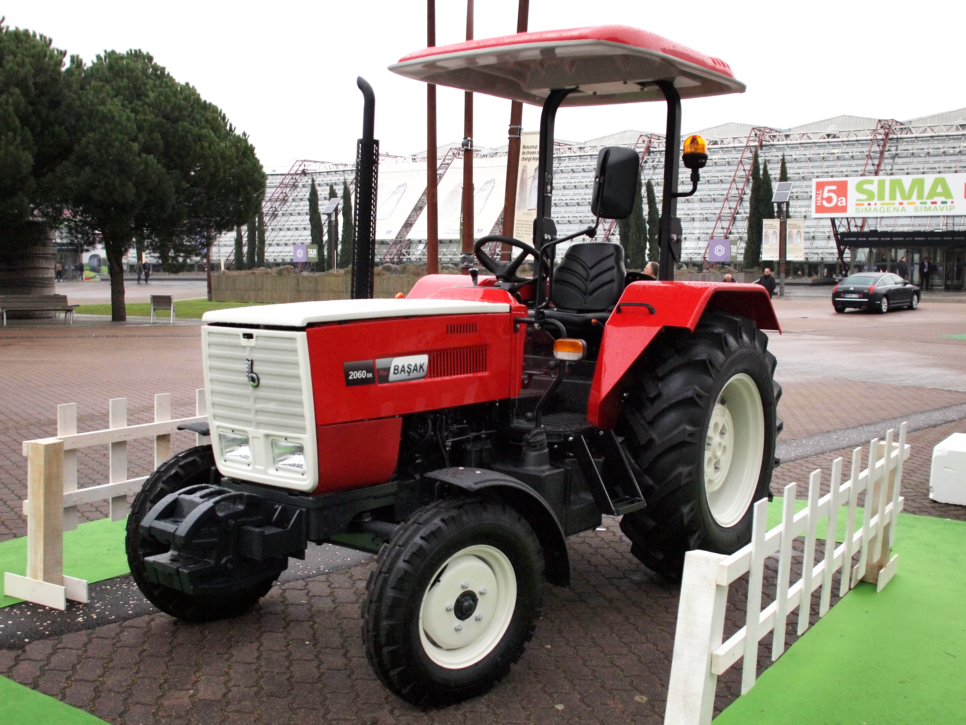 Turkish Başak 2060 BK tractor photographed at SIMA 2015 far.